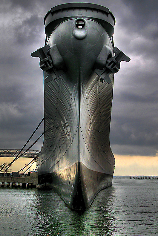 USS Wisconsin at her berth in Norfolk, VA.